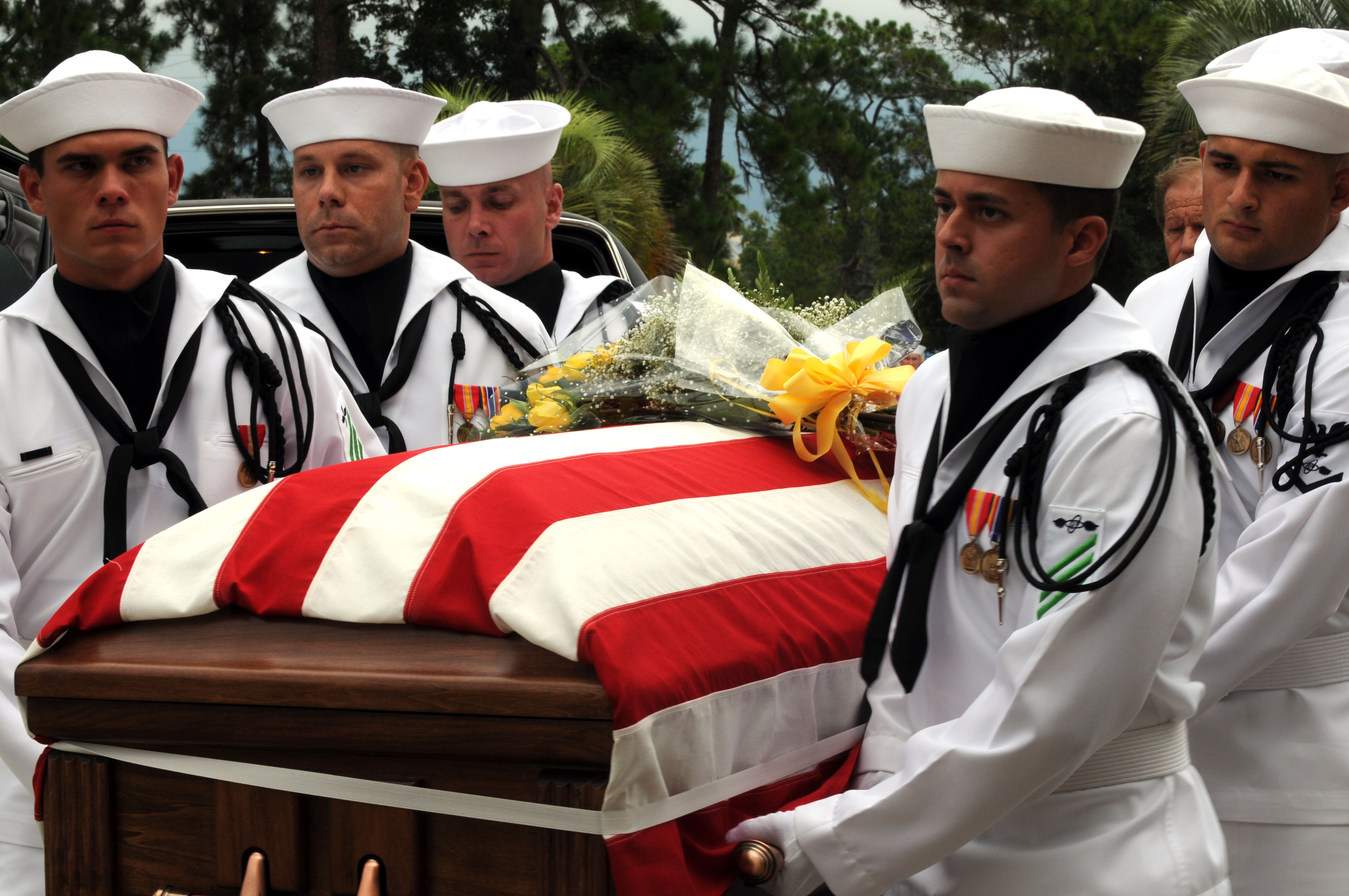 JACKSONVILLE, Fla. (Aug. 13, 2009) Members of a Navy honor guard carry the remains of Capt. Michael Scott Speicher to All Saints Chapel at Naval Air Station Jacksonville in Jacksonville, Fla. Speicher was killed when his F/A-18 Hornet was shot down over Anbar province, Iraq on the first day of offensive operations during Desert Storm on Jan. 17, 1991 (U.S. Navy photo by Mass Communication Specialist 1st Class Leah Stiles/Released)